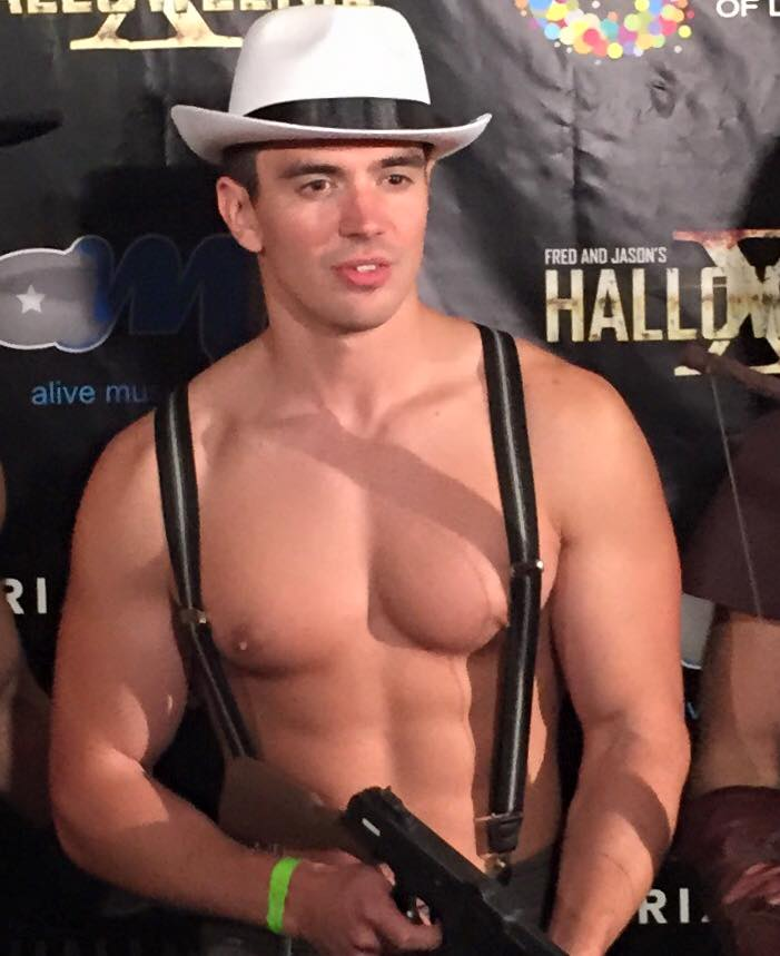 Steve Grand